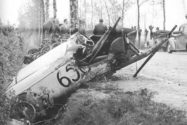 Ferrari 166 s/n 0024MB at the 1950 Mille Miglia where it crashed and was rebuilt as "The egg" with a totally different body. Drivers in this race were Umberto Marzotto and Franco Cristaldi.[1]